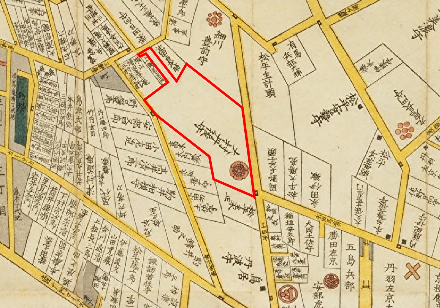 Residenz og Ômura clan at Edo